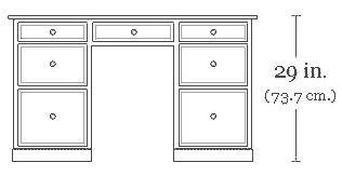 Pedestal desk sketch. Modified sketch by by AlainV to bring the image in compliance with Wikipedia:Preparing_images_for_upload. Modifications: Cropped to remove caption text Cropped to remove extraneous white space Converted to PNG (this could probably be SVGd)